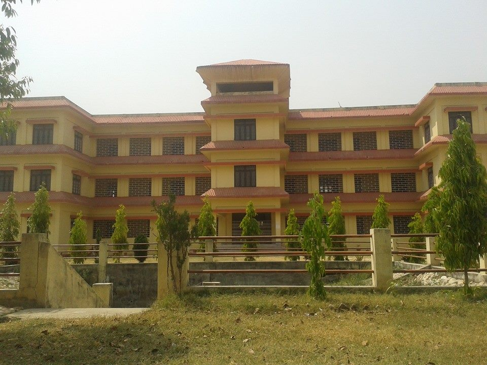 School of Pachrauta municipality ward no. 1 Piparpati established in BS 2008 AD 1951